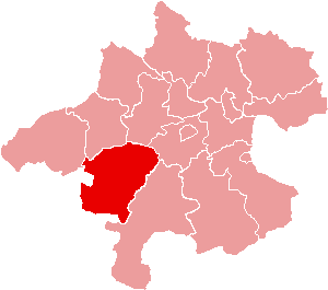 Location of Bezirk Voecklabruck within the Land of Upper Austria